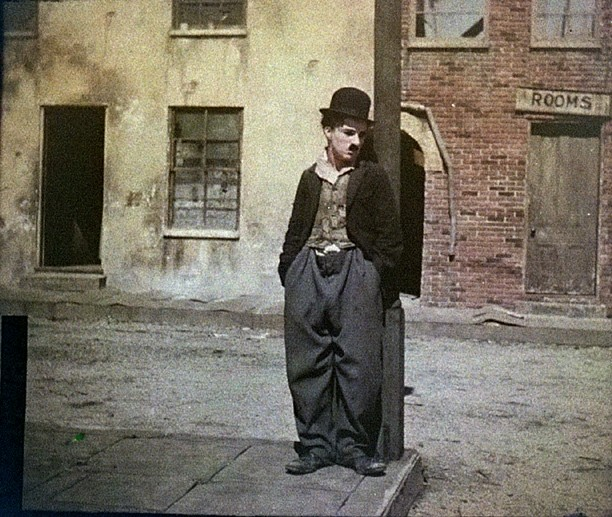 Portrait of Charlie Chaplin